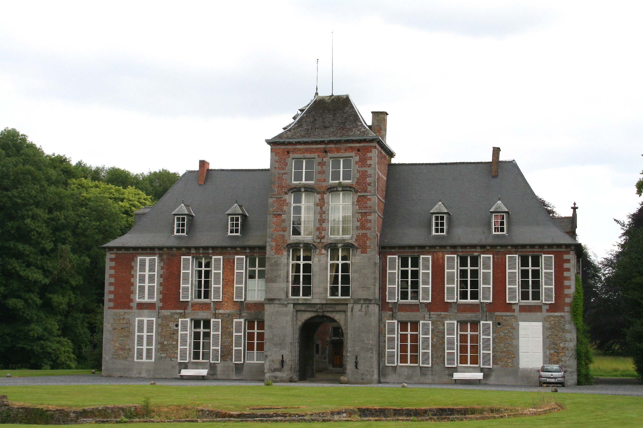 Écaussinnes-d’Enghien (Belgium), the « la Follie » castle (XVIth century).